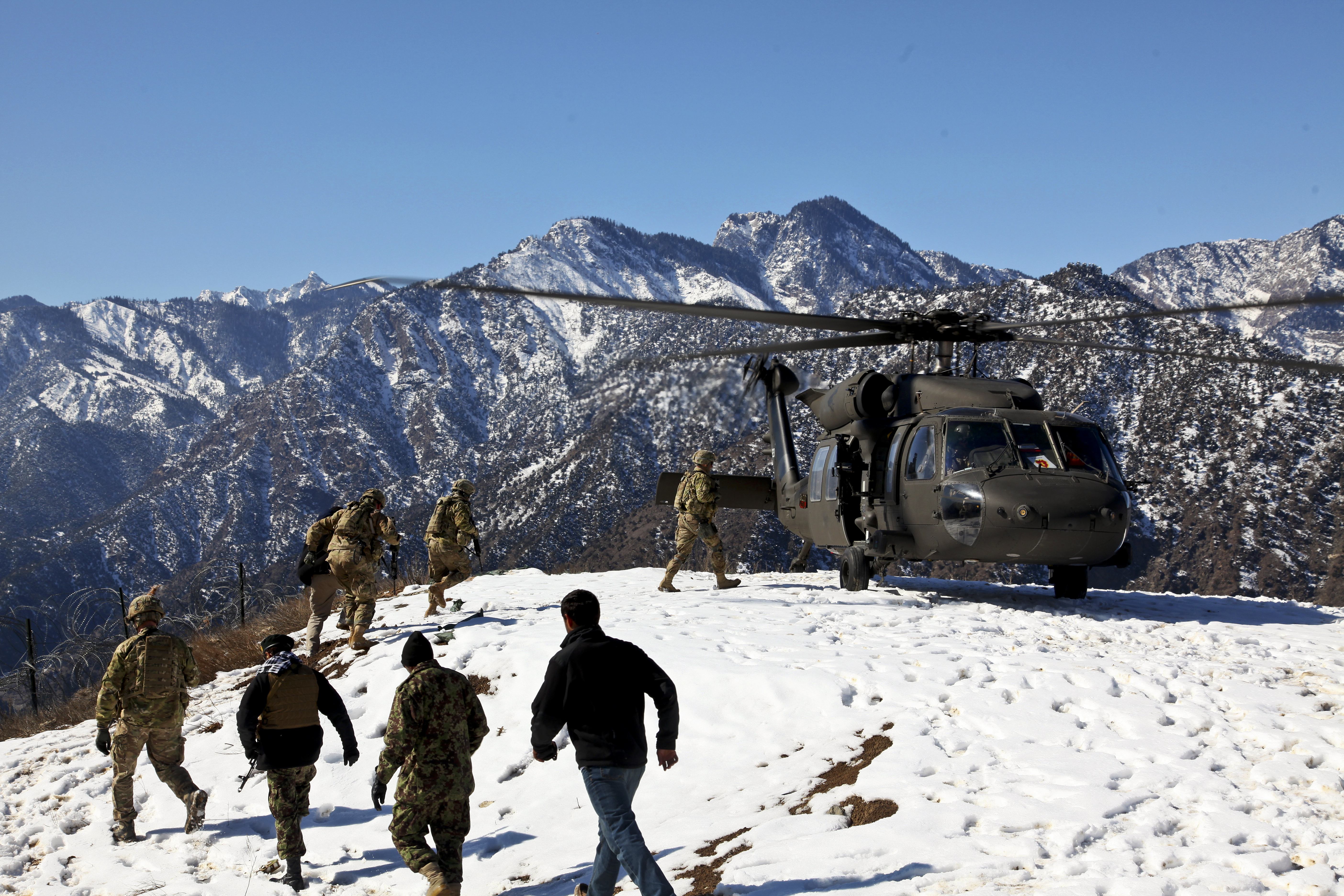 U.S. Soldiers of Headquarters and Headquarters Company, 2nd Battalion, 27th Infantry Regiment, 3rd Brigade Combat Team, 25th Infantry Division, and Afghan National Army Soldiers, prepare to board a U.S. Army UH-60 Black Hawk helicopter, of C Company, 2nd Battalion, 82nd Aviation Regiment at Observation Post Mangol, Feb. 8, 2012, in the Nari district, Kunar province, Afghanistan.